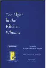 This is a picture of the cover of Margaret Britton Vaughn's book The Light in the Kitchen Window